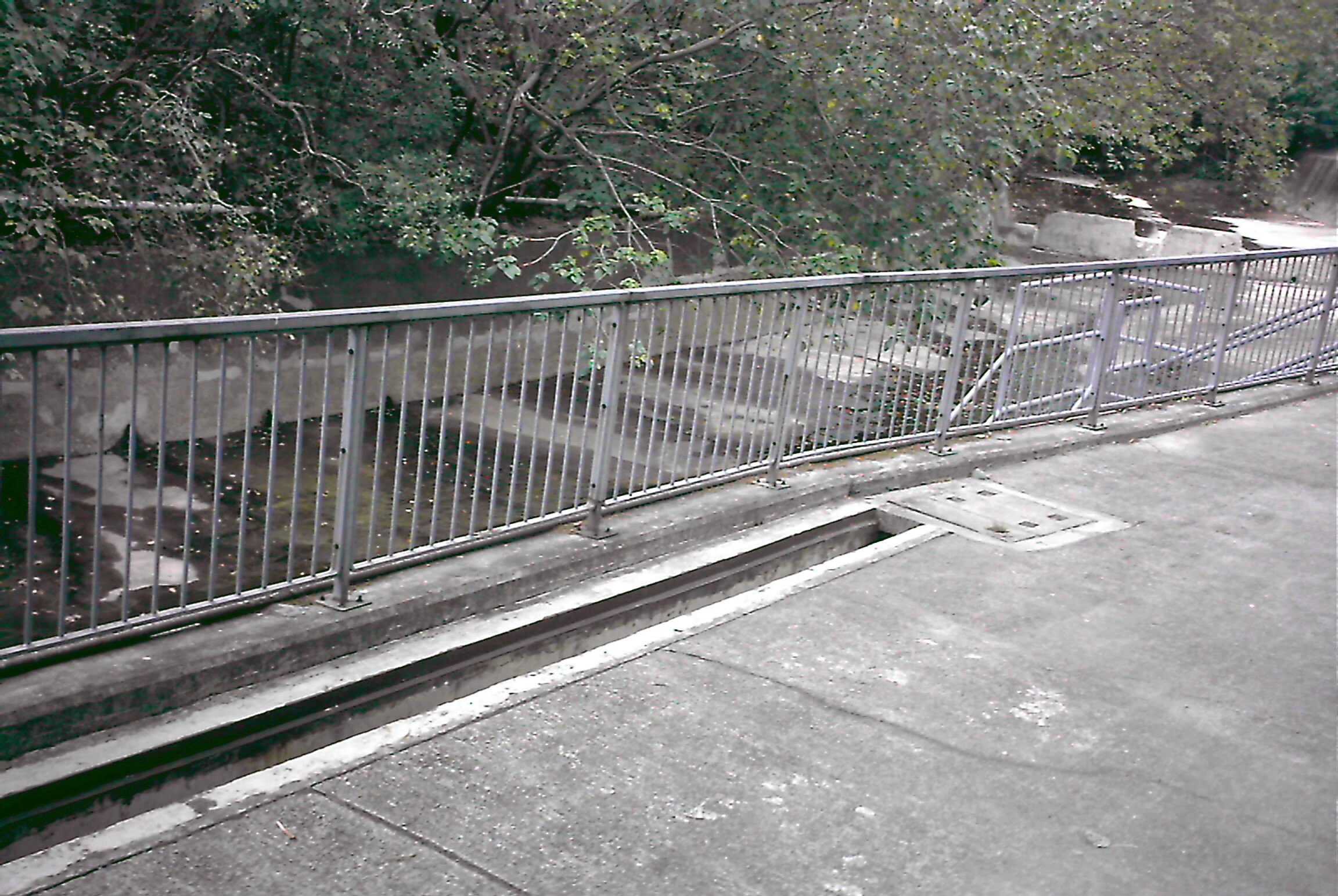 The Junction of Fung Wong Kai Stream and Kai Tak Nullah, Diamond Hill, Kowloon, Hong Kong 中文（香港）: 香港九龍鑽石山：鳳凰溪與啟德明渠的接口處。